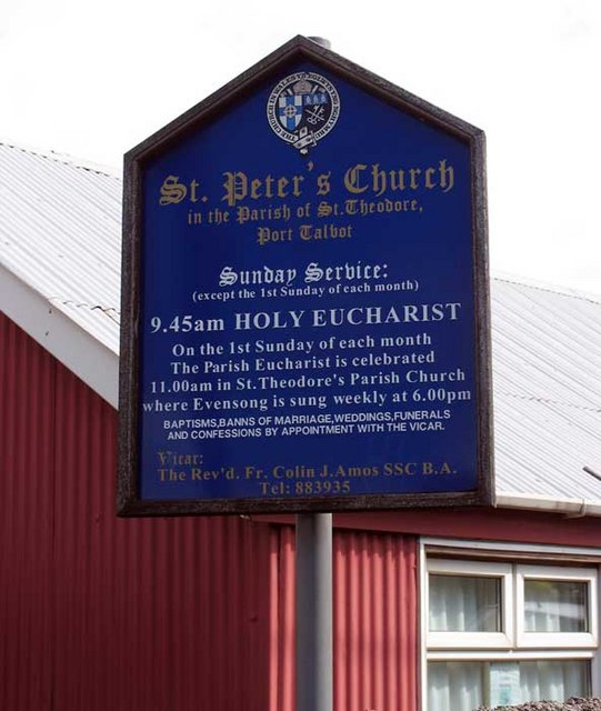 St Peter, Goytre, Glamorgan